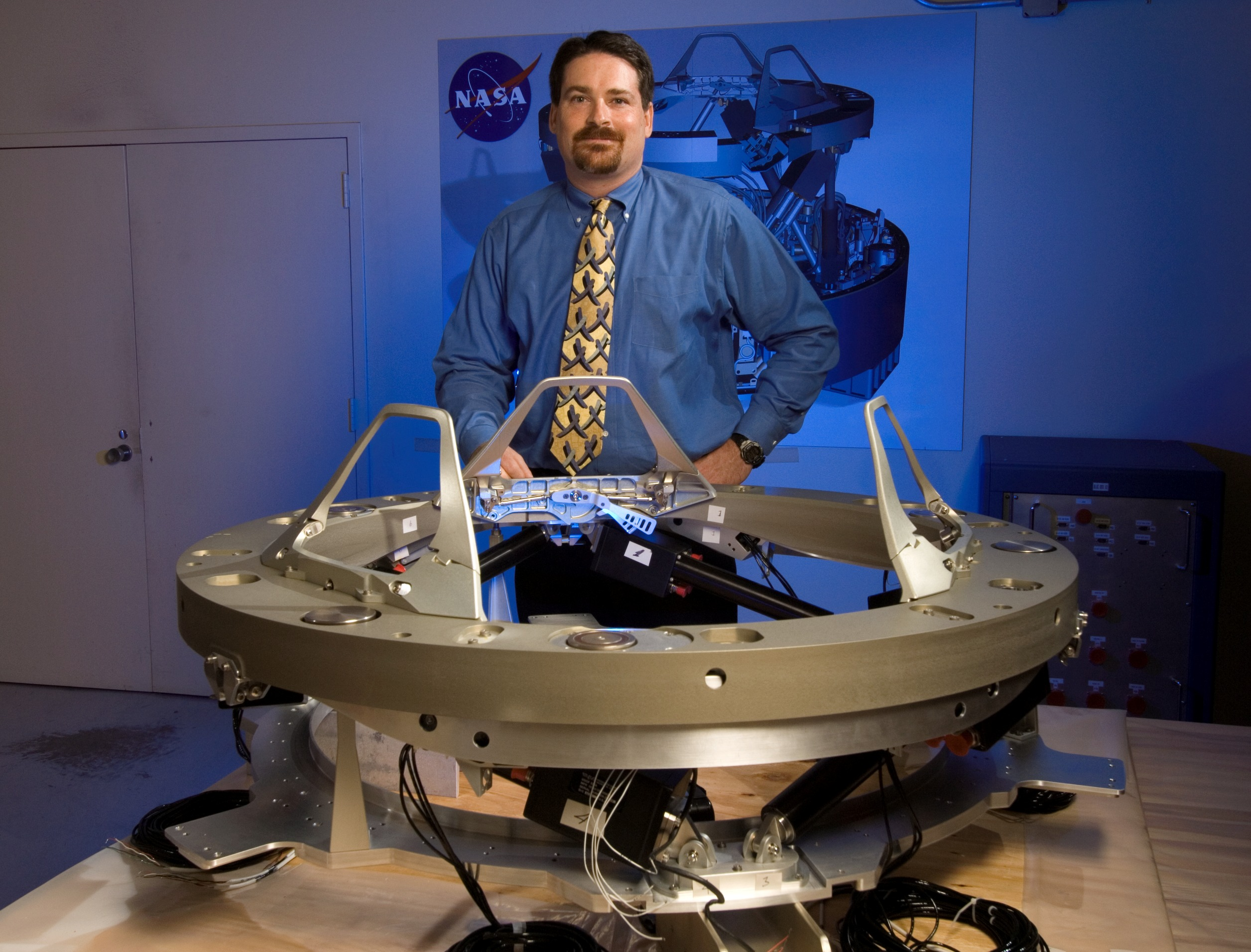 The Low-Impact Docking System, better knows as LIDS, is a prototype of a docking system that may be used on future spaceships. LIDs eliminates the high forces associated with docking, is compatible with berthing operations and is easily reconfigurable to support a wide range of vehicles and mating operations. James Lewis, project manager, is shown with the LIDS prototype.